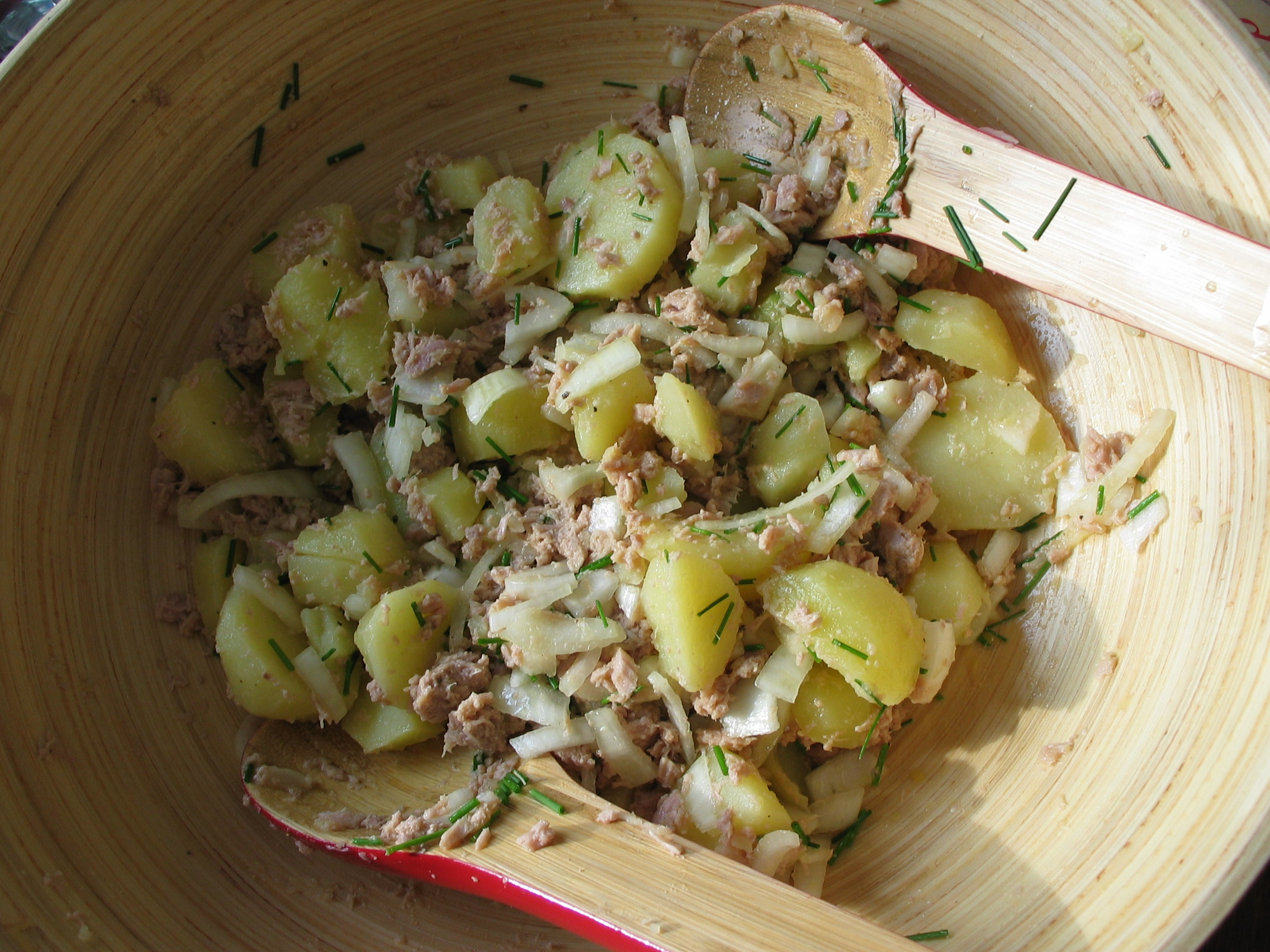 Potato salad.